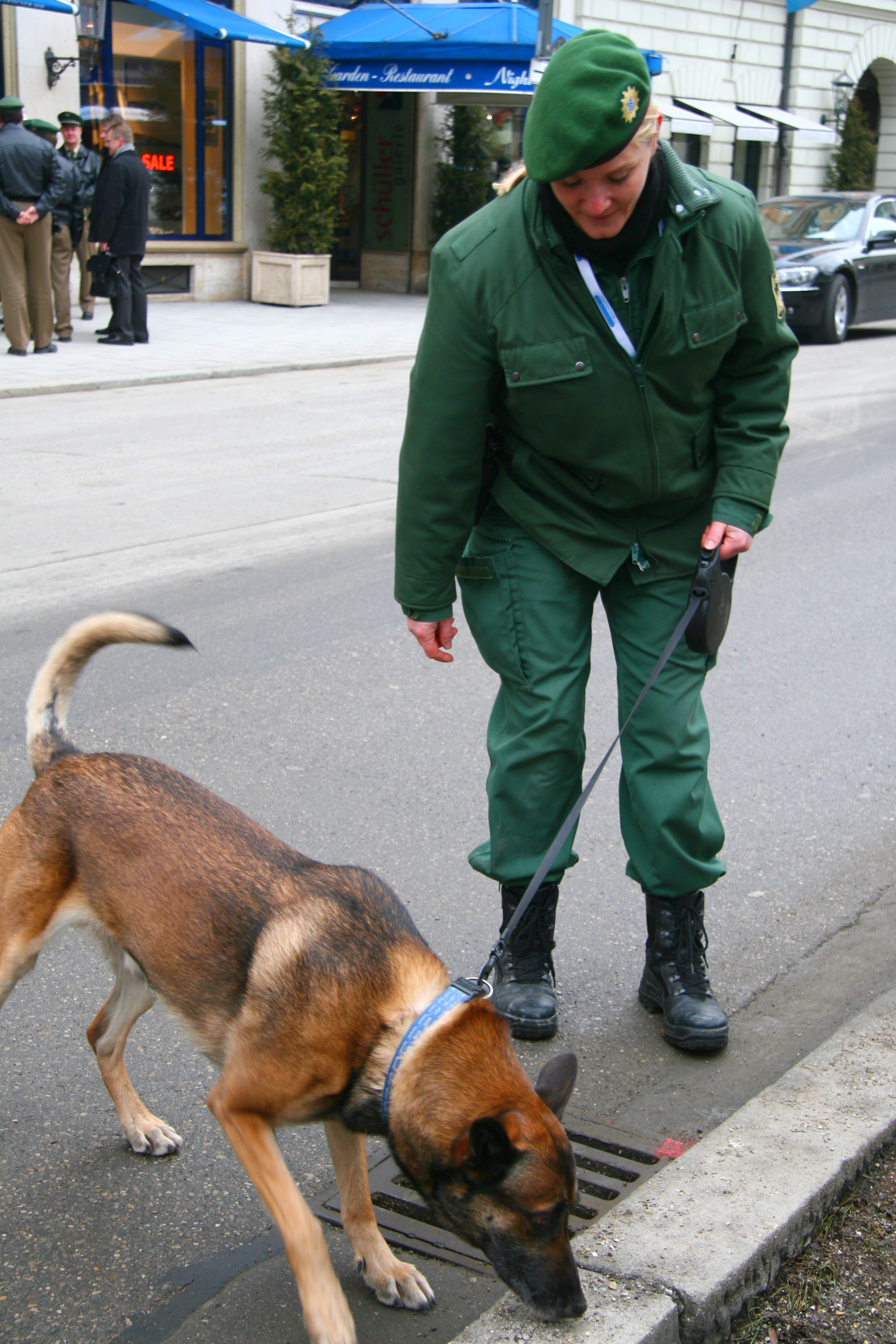 46th Munich Security Conference 2010: Police officer with sniffer dog.